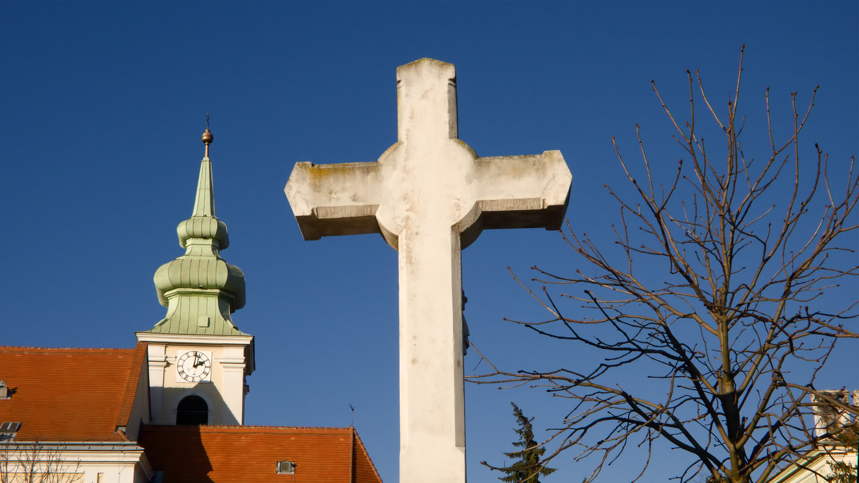 Leopoldauer Friedhof in Vienna Floridsdorf